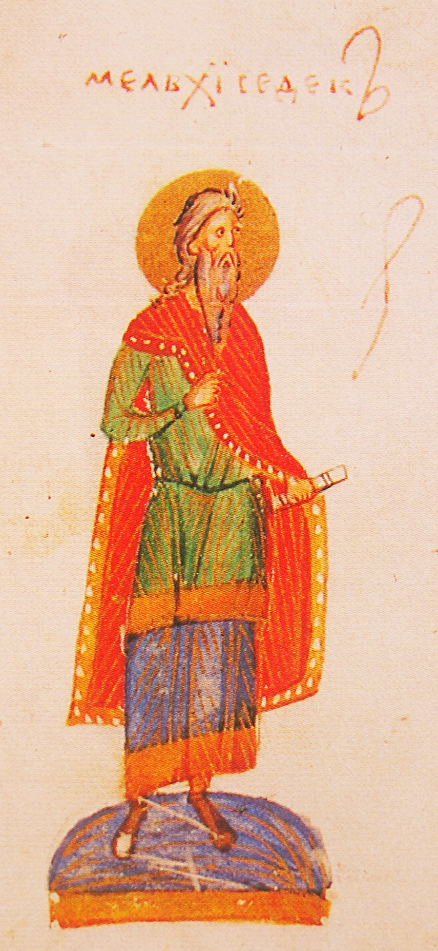 Kievan Psalter